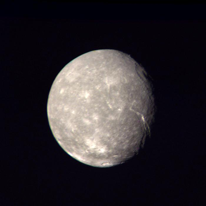 Original caption: This high-resolution color composite of Titania was made from Voyager 2 images taken Jan. 24, 1986, as the spacecraft neared its closest approach to Uranus. Voyager's narrow-angle camera acquired this image of Titania, one of the large moons of Uranus, through the violet and clear filters. The spacecraft was about 500,000 kilometers (300,000 miles) away; the picture shows details about 9 km (6 mi) in size. Titania has a diameter of about 1,600 km (1,000 mi). In addition to many scars due to impacts, Titania displays evidence of other geologic activity at some point in its history. The large, trenchlike feature near the terminator (day-night boundary) at middle right suggests at least one episode of tectonic activity. Another, basinlike structure near the upper right is evidence of an ancient period of heavy impact activity. The neutral gray color of Titania is characteristic of the Uranian satellites as a whole. The Voyager project is managed for NASA by the Jet Propulsion Laboratory.